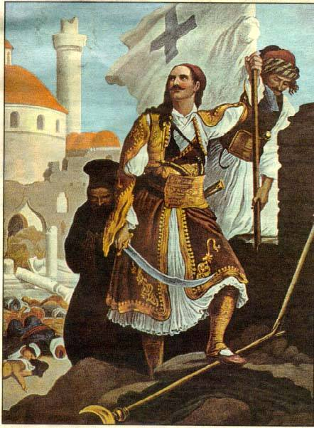 This picture was scanned from a personal set of cards that belonged to my family depicting scenes of the Greek War of Independence, which consist on a series of portraits about the revolution heroes as well as main events such as major battles etc that are present on the Hellenic Parliament main halls. This card dates from 1929 and is a part of my personal kit of the main popular engravings of the epoque called "laiki gravoura".